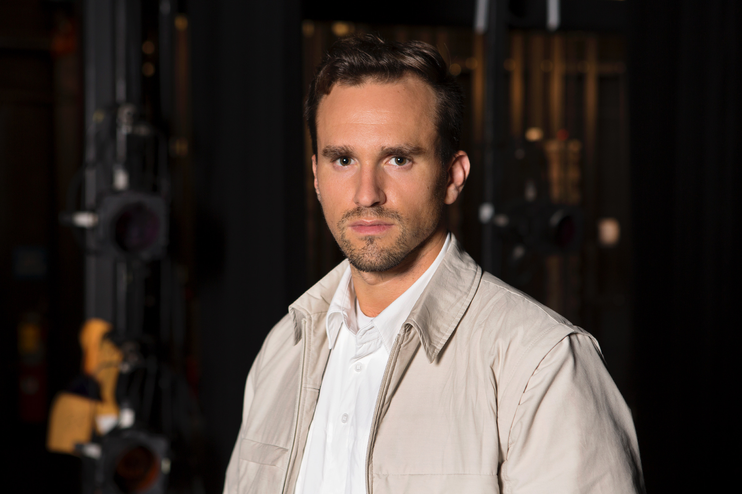 Christian Scheider backstage during The Summit at Guild Hall, 2018.